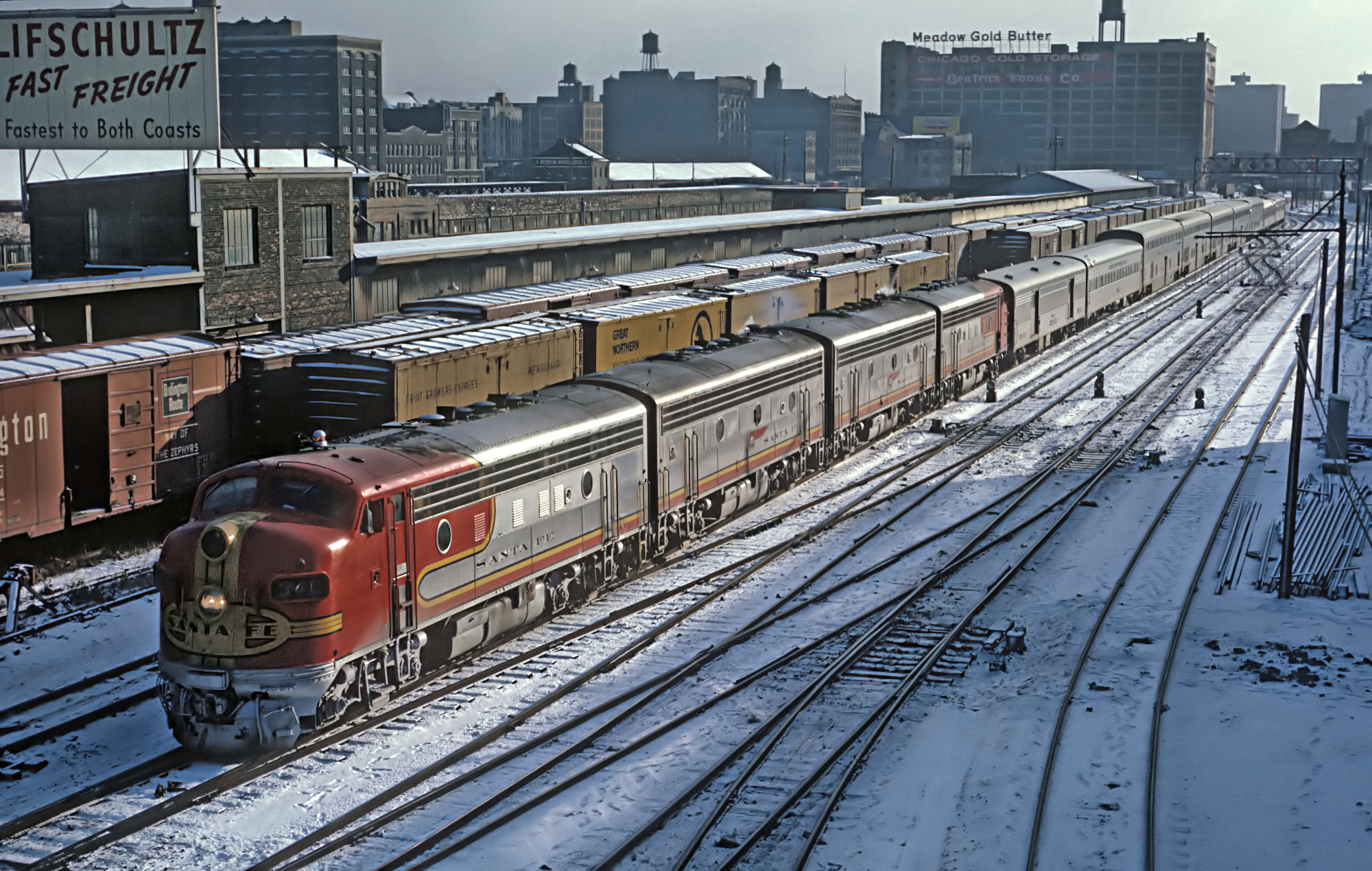 Train 2, The San Francisco Chief, taken from the Roosevelt Road Viaduct, Chicago, IL on December 26, 1967 A Roger Puta Photograph